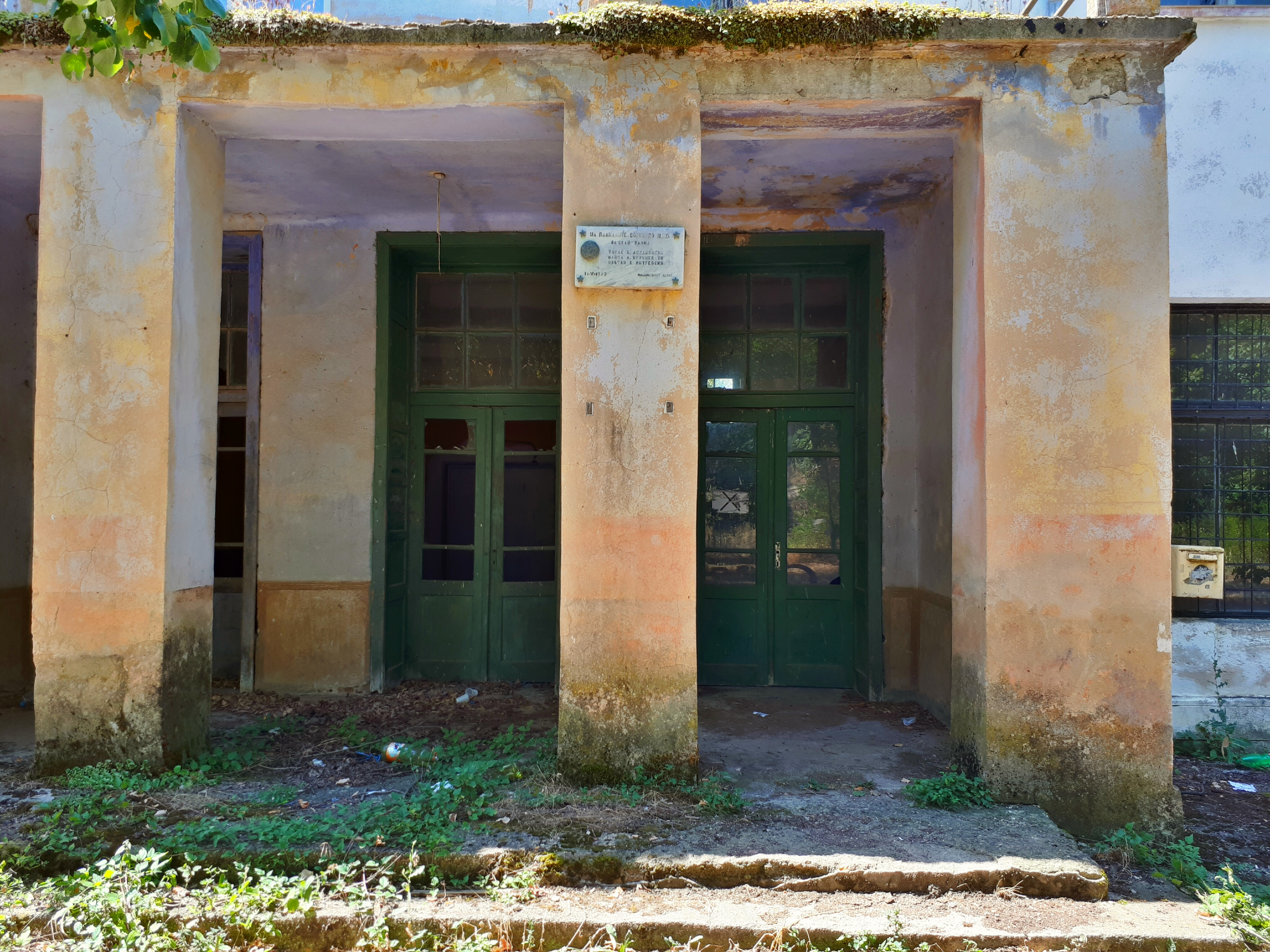 Part of the Veloexpedition in 2017